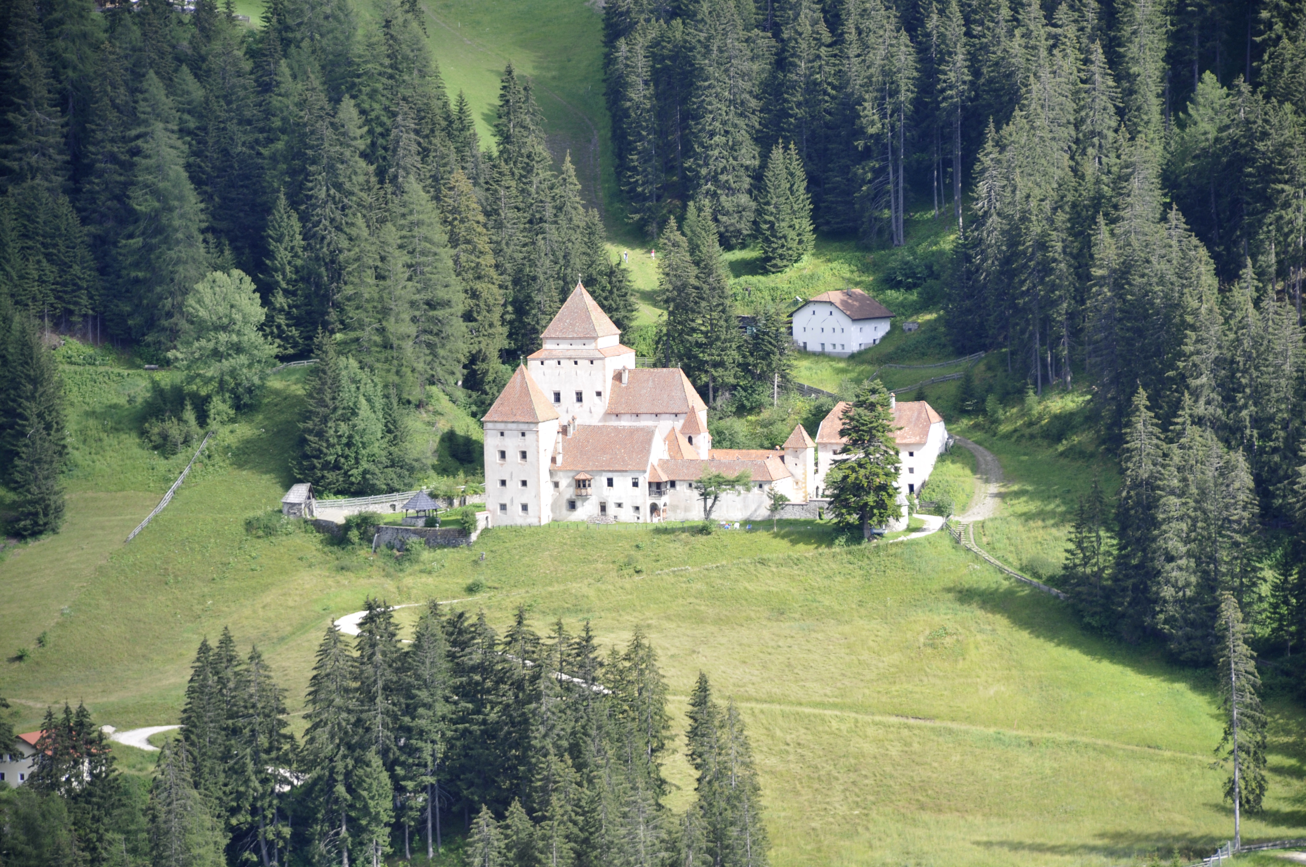 The castel Fischburg in Gröden - South Tyrol - the north view